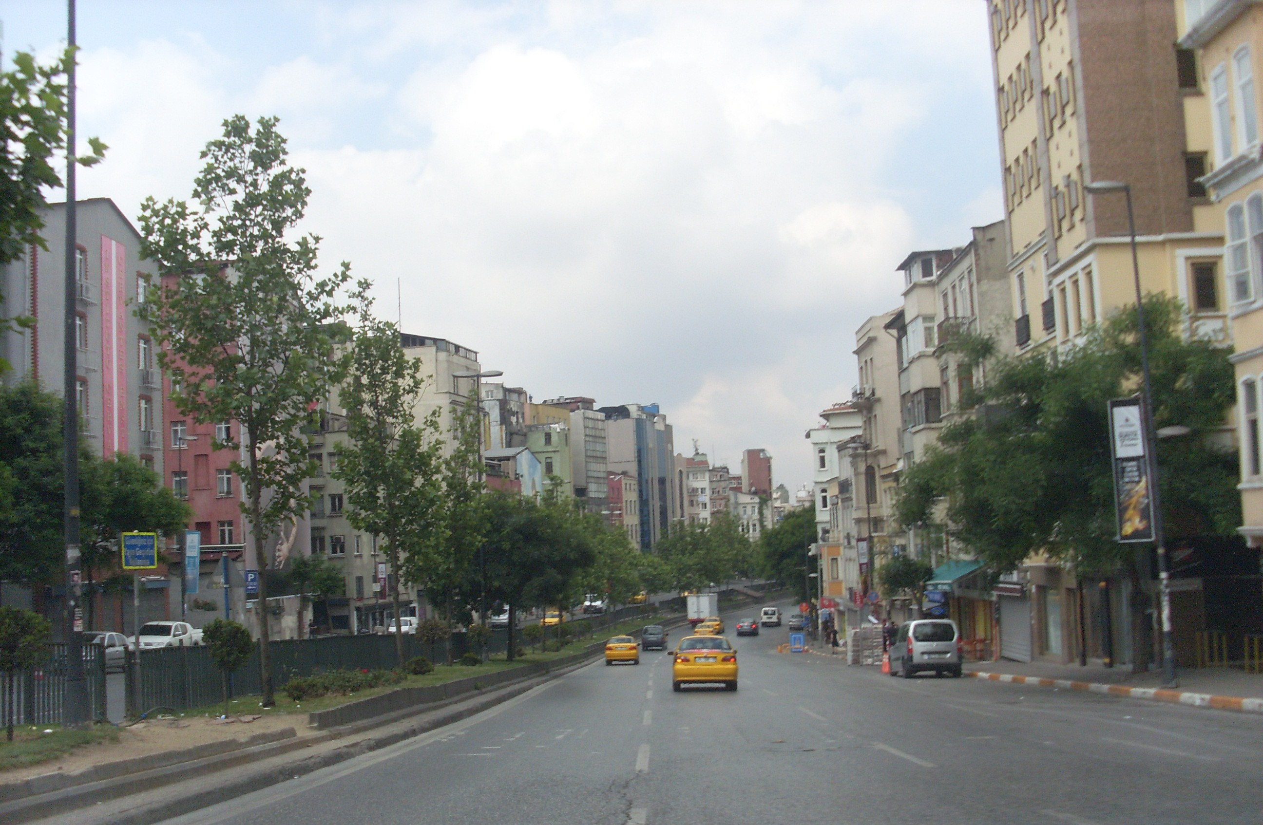 Tarlabaşı Cad İstanbul